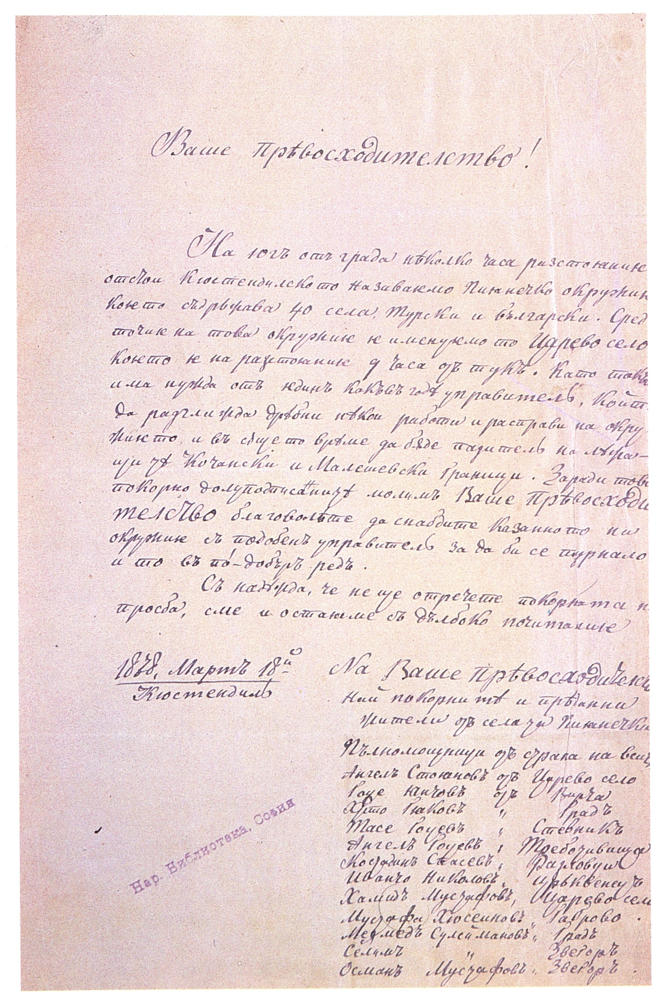 Appeal from the people of Pianets region to the Russian military governors for establishment of civil government in the region, 18 March 1878 Your Excellency, The so-called Pianechko district of the Kyustendil region, consisting of 40 Turkish and Bulgarian villages, lies (at) a few hours' distance to the south of the town. The centre of this district is called Tsarevo Selo, which is nine hours from here. As such (a centre), it needs an administration of a kind to deal with minor (local) matters and quarrels in the district and to guard the near-by Kochani and Maleshevo frontiers. For this reason we, the undersigned, humbly beg Your Excellency to provide the district with such an administrator, so that a better order be established in it, too. Hoping that you will not decline our humble request, we remain with deep respect, Your Excellency's most obedient and devoted inhabitants of the villages of Pianechko district, Authorized by all: Angel Stoyanov of Tsarevo Selo Gotse Yanchov of Vircha Hristo Gyakov of Grad Tasse Gotsev of Stevnik Angel Kotsev of Trebotivishta Kostadin Spassov of Razlovtsi Ivancho Nikolov of Tsurvenik Hamid Mustafov of Tsarevo Selo Mehmed Suleimanov of Gabrovo Selim Suleimanov of Zvegor Osman Mustapha of Zvegor